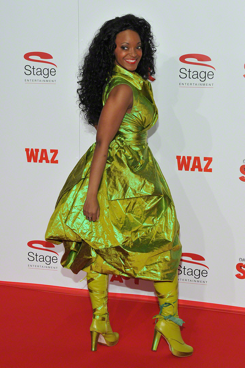 Actress Zodwa Selele arrives on the red carpet for the premier of the musical 'Sister Act' in Oberhausen (Germany) on December 3, 2013.